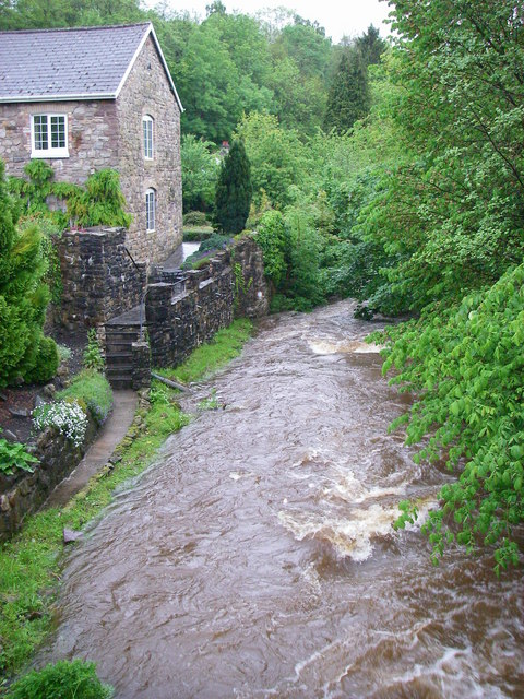 Afon Clydach A rain-swollen Afon Clydach rushes past the old Forge House at Maesygwartha towards the bottom of the Clydach Gorge.